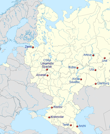 Locations of teams in the 2016–17 Russian Premier League